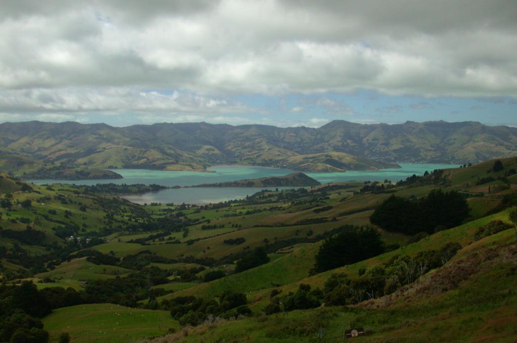 A view of the volcanic-formed harbour in Akaroa.